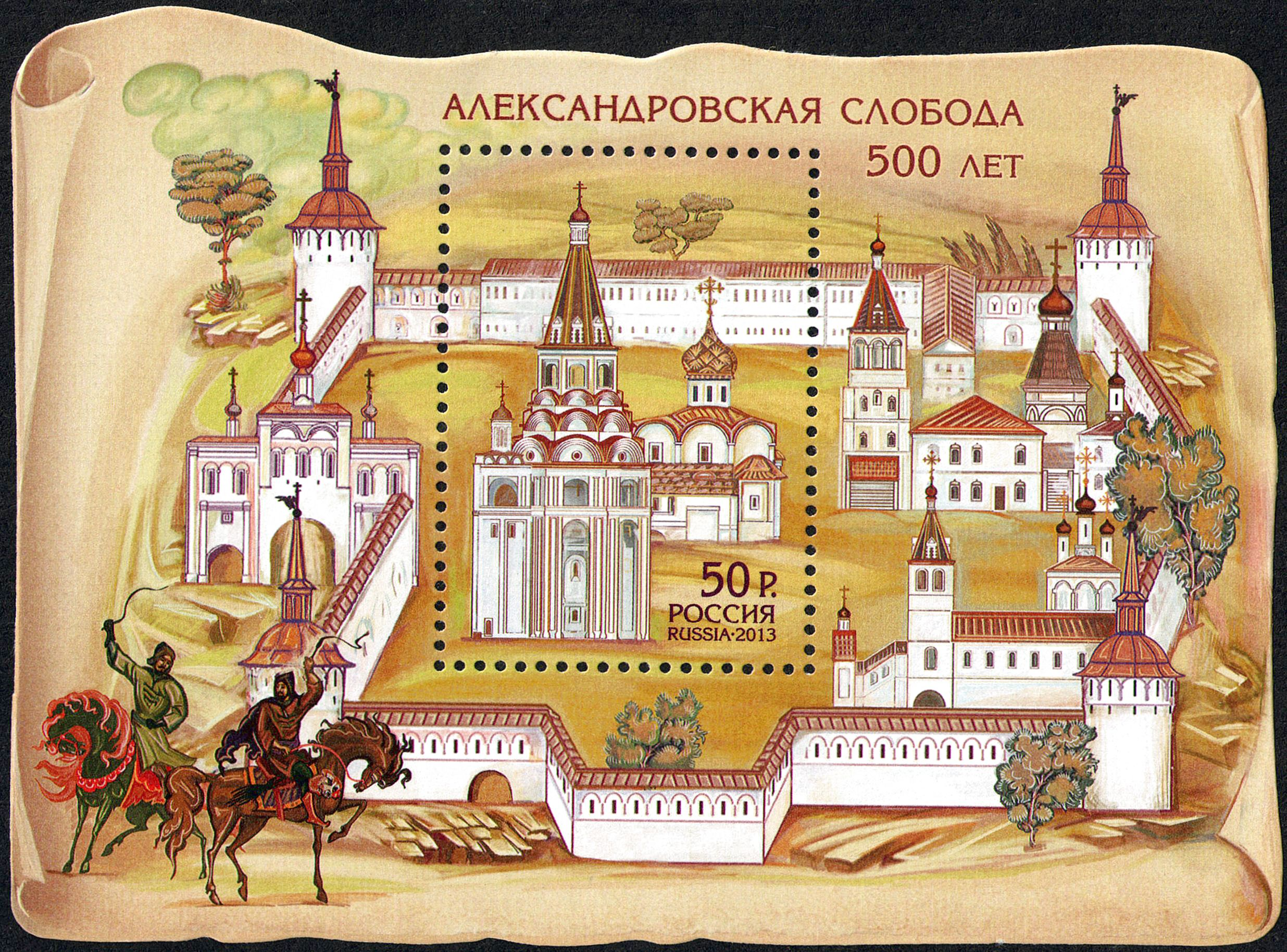 500th anniversary of the Alexandrovskaya village.The souvenir sheet of Russia, 1 stamp×50.00 Rubles, 18 May 2013, PTC Marka Catalogue No 1698, Michel No 1931 (Block 183). Coated paper. Offset printing. Perforation: frame 12×12½. The size of the souvenir sheet: 104×76 mm. The size of the stamp: 30×42 mm. Print run: 85,000.The architectural ensemble of the Alexandrov Kremlin.